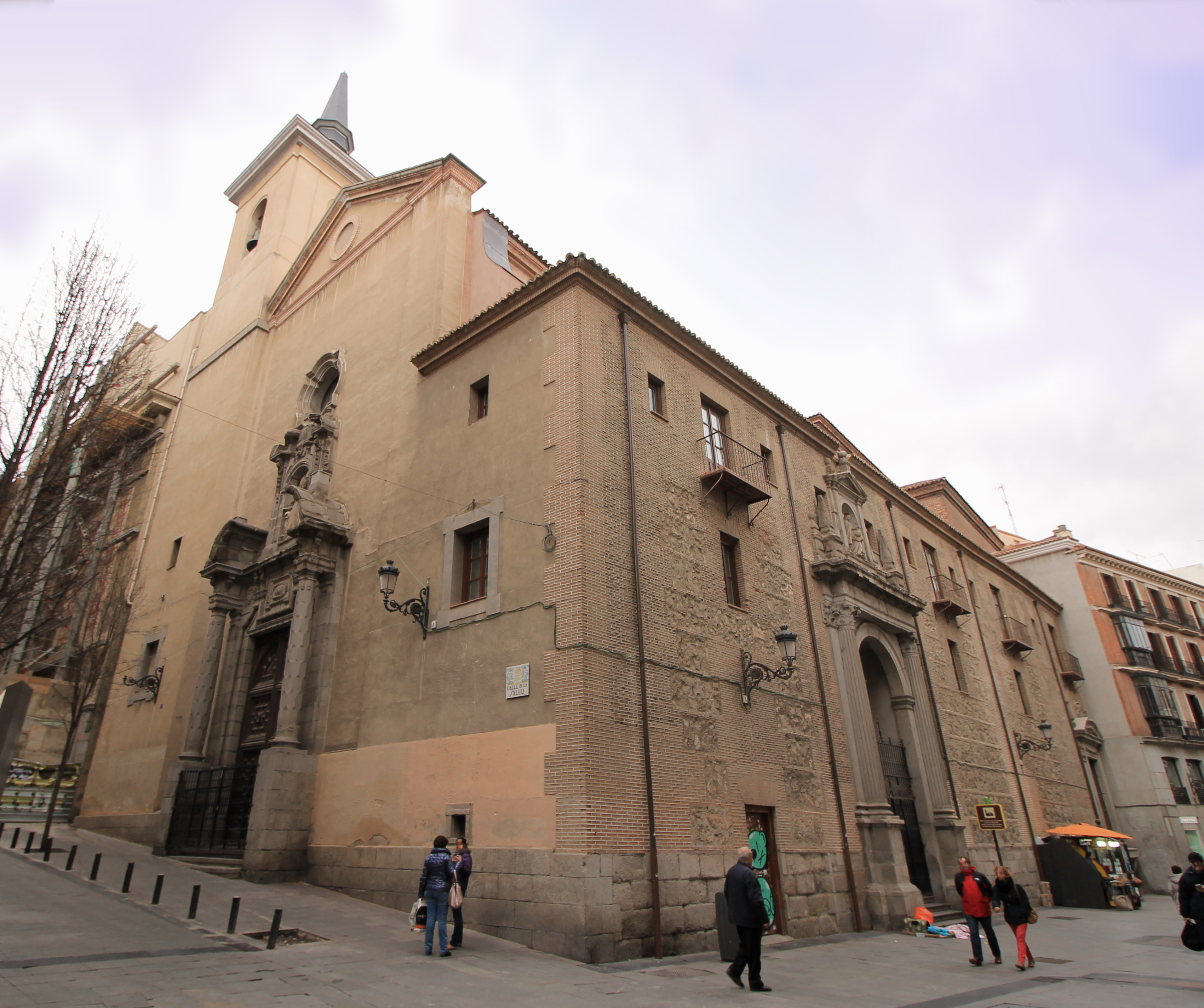 Façade of Church of Our Lady of Mount Carmel in Madrid (Spain).